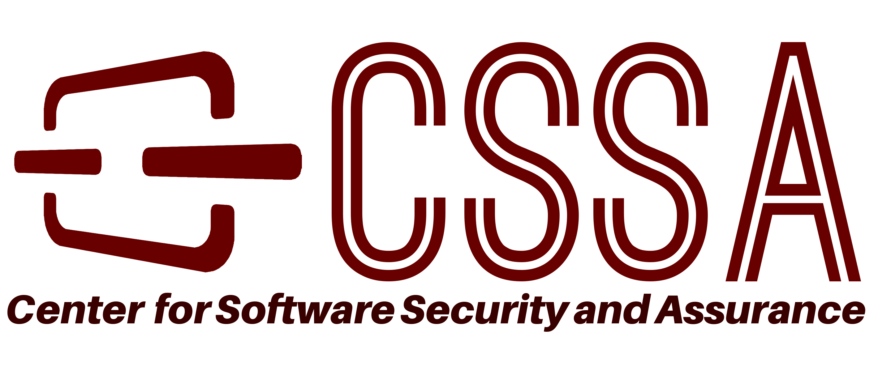 Logo for CSSA